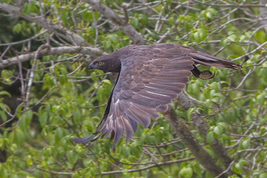 The species Changeable Hawk Eagle was photographed at Sunderbans National Park, West Bengal, India on 23.08.2014.